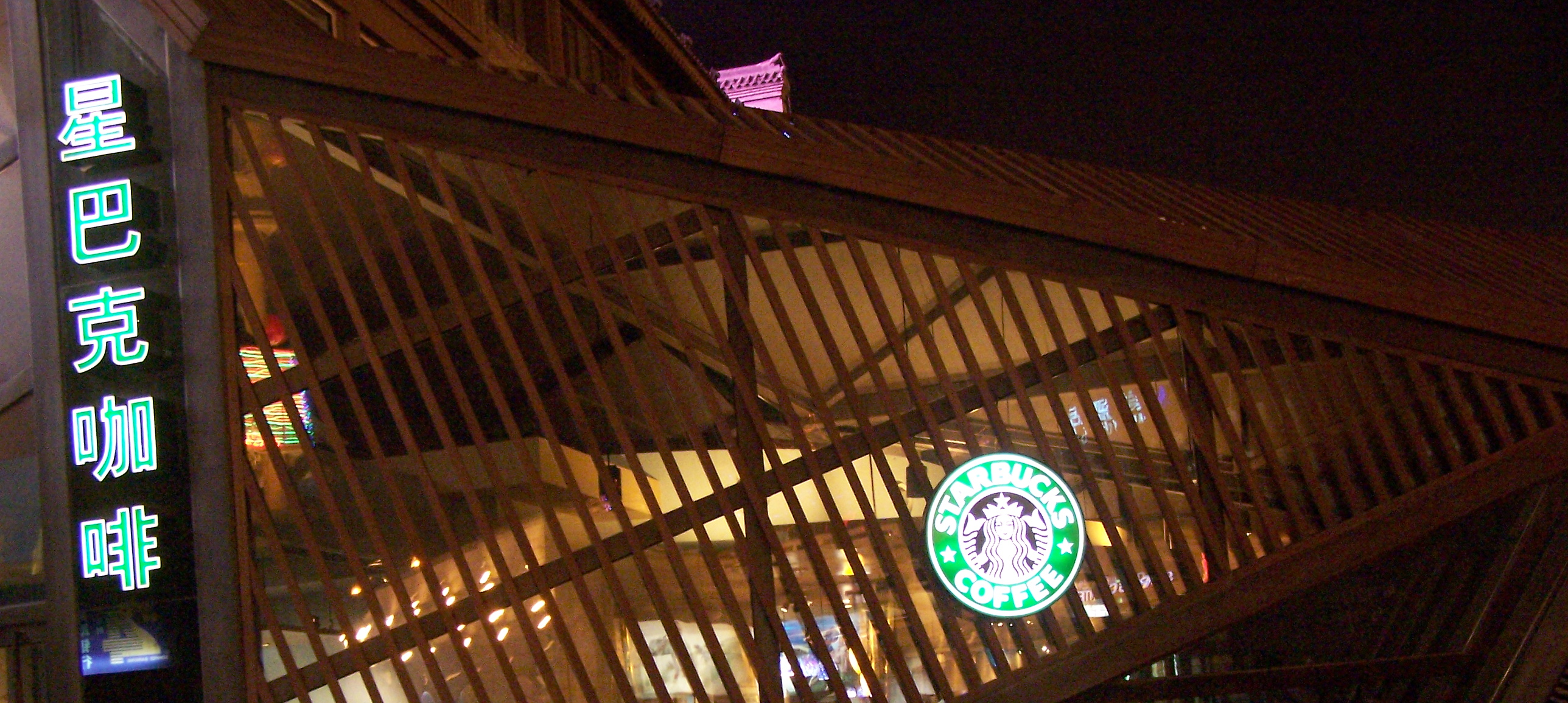 A Starbucks in Xi'an, China.